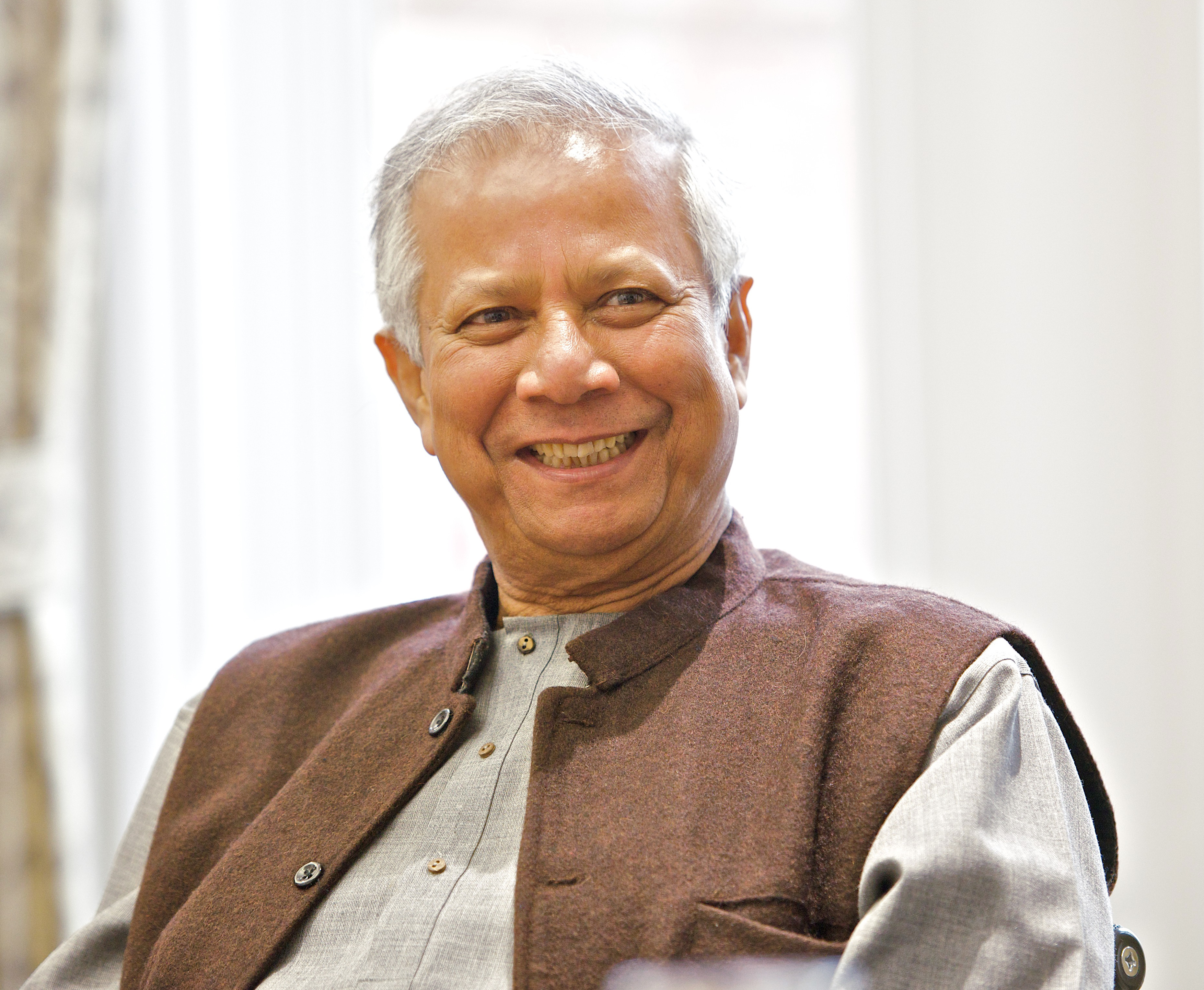 Nobel Peace Prize winner Muhammad Yunus championed his concept of social business as a way to release deprived people from the ‘prison’ of welfare at a special summit hosted by the University of Salford on Saturday 18 May.